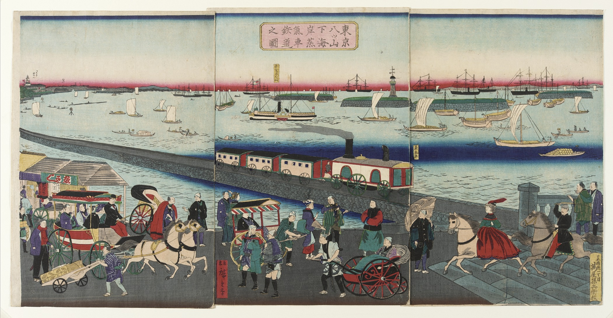 Japan, late 19th century Alternate Title: Tokyo Yatsuyama Shimokaigan Jokisha Tetsudo no zu Prints; woodcuts Triptych; color woodblock prints Gift of Mr. and Mrs. Robert O. Kinsey (M.83.245.11a-c) Japanese Art